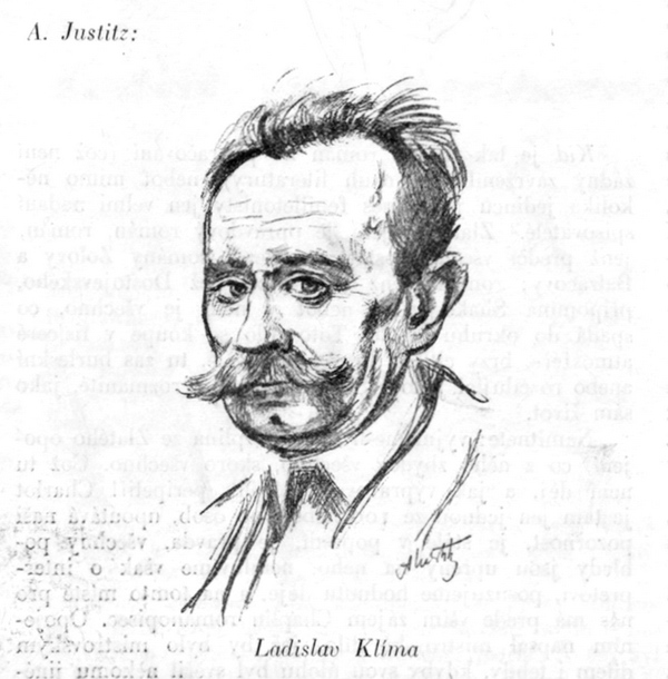 Ladislav Klíma (1878–1928) was Czech philosopher and Novelist Česky: Ladislav Klíma (1878–1928) byl český filosof a básník.